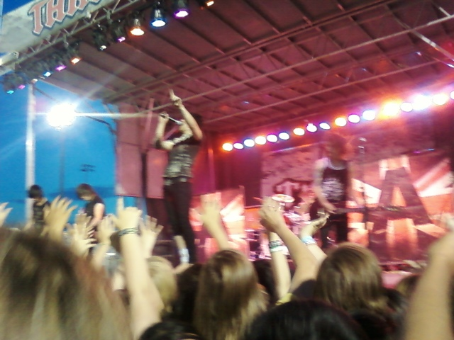 English metalcore band Asking Alexandria performing in Pahrump, NV| in May 2010.